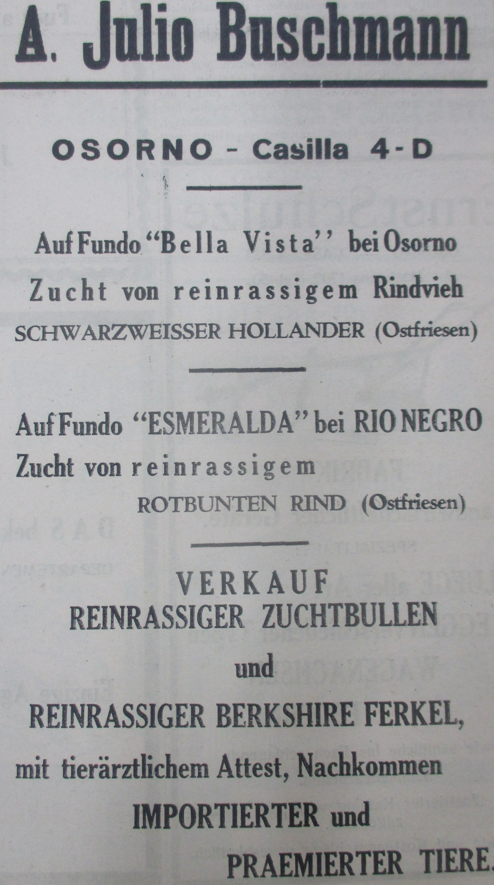 Advertising of businessman Julio Buschmann of Osorno, imported european livestock trade. Advertising in german, Deutsche Zeitung für Chile (German Journal for Chile), 1936.